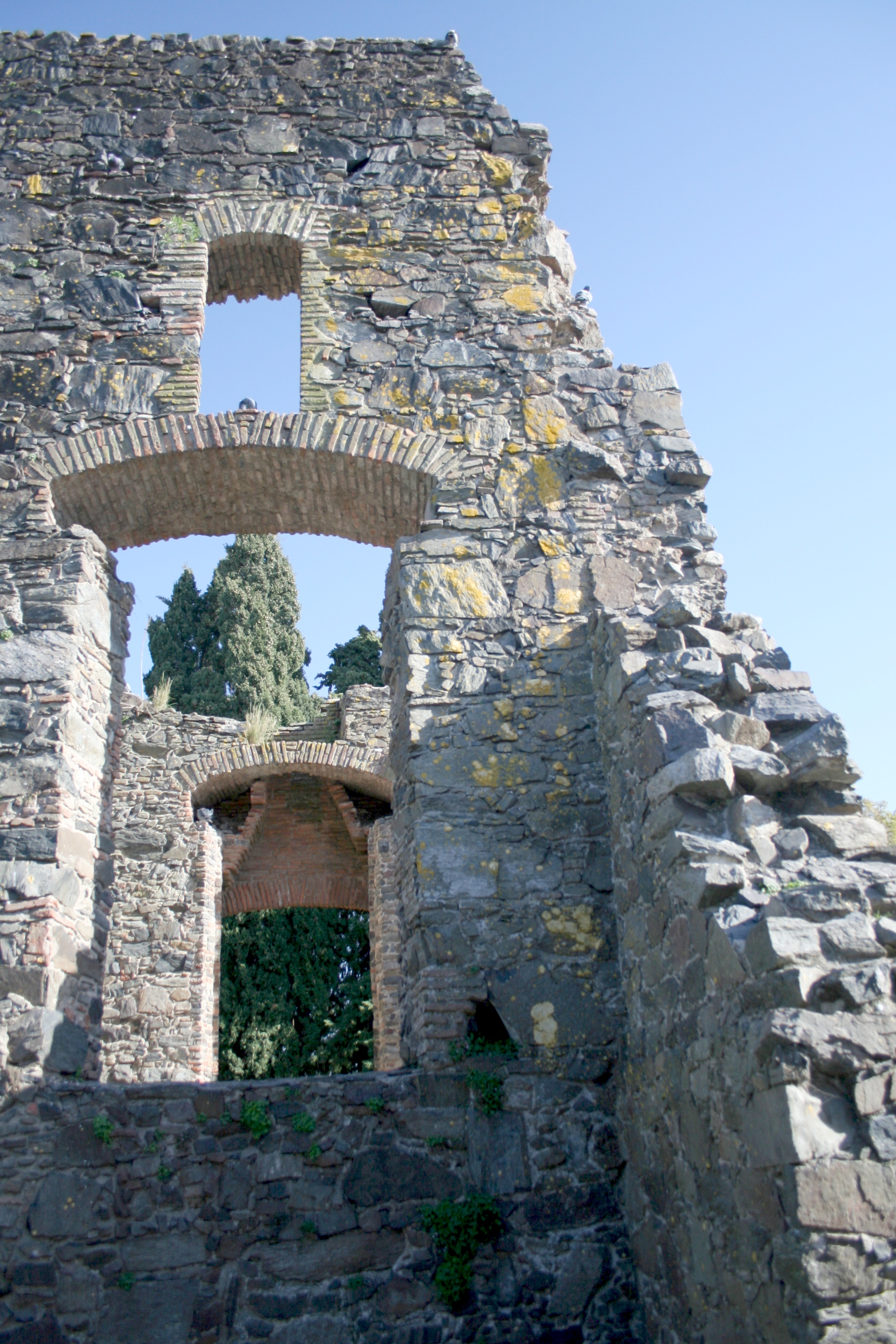 Ruins of San Francisco Javier convent in Colonia del Sacramento.